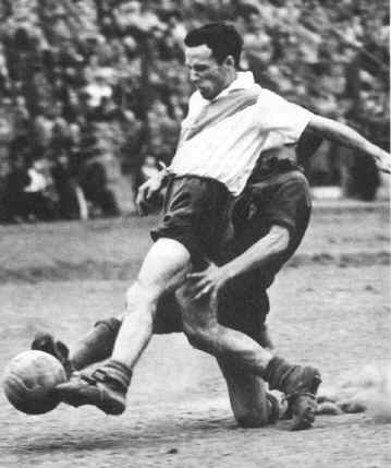 This is a photograph taken of Felix Loustau during his time with River Plate in Argentina. He played for the club between 1942 & 1958.